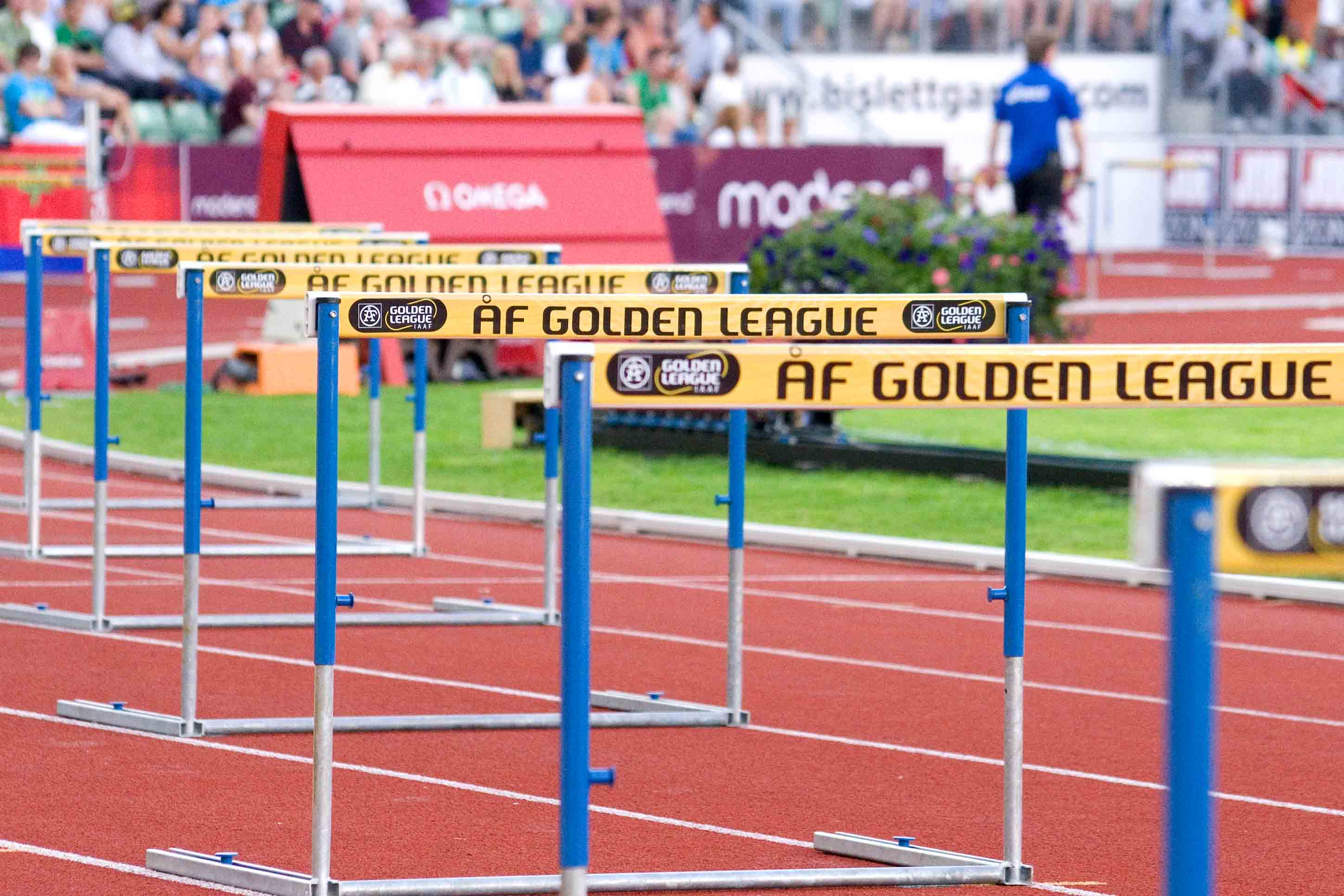 110 metre hurdles Bislett Games 2008